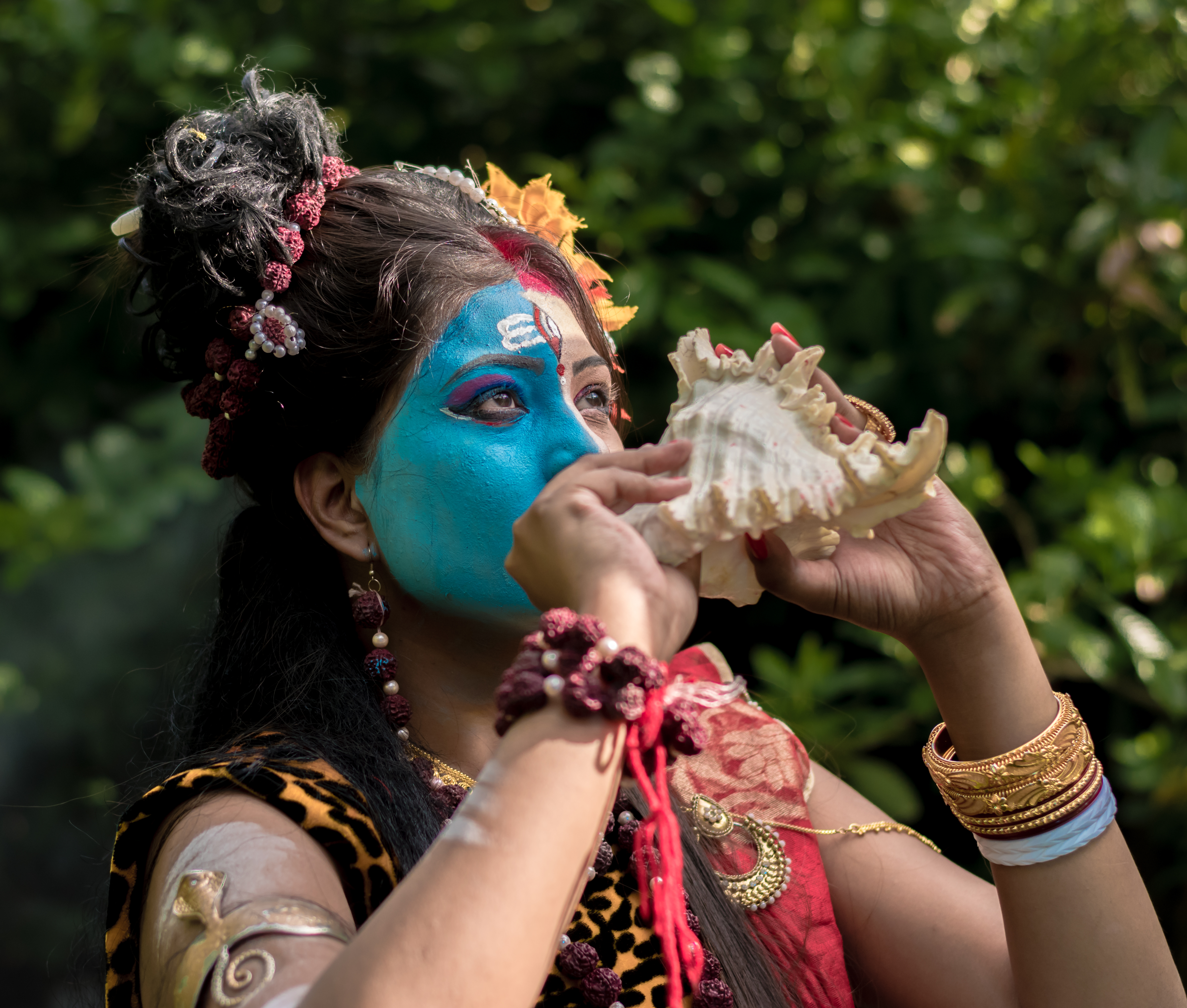 Ardhanarishvara, (Sanskrit: “Lord Who Is Half Woman”) composite male-female figure of the Hindu god Shiva together with his consort Parvati. This photo has been taken in the country: India